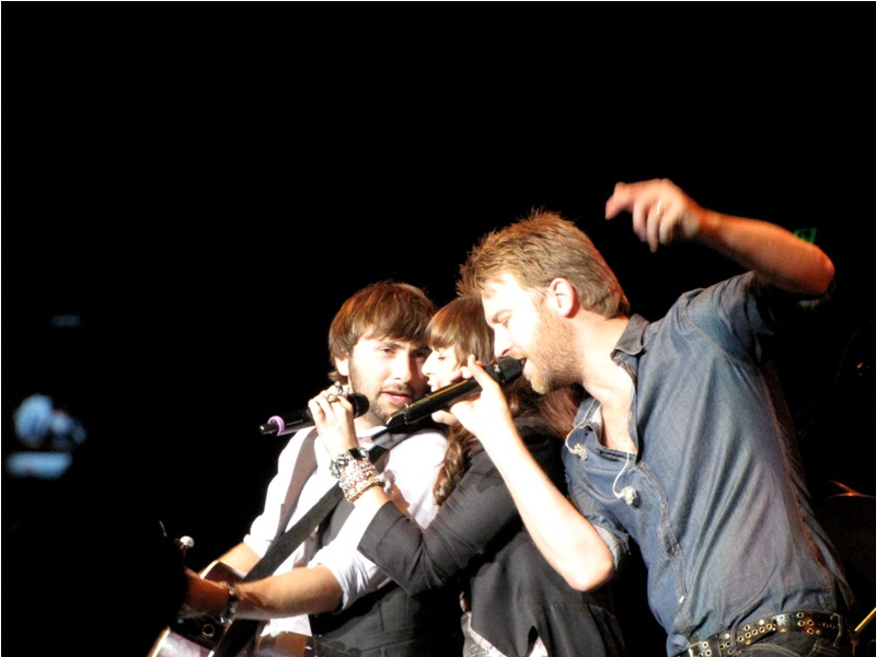 Lady Antebellum during a concert